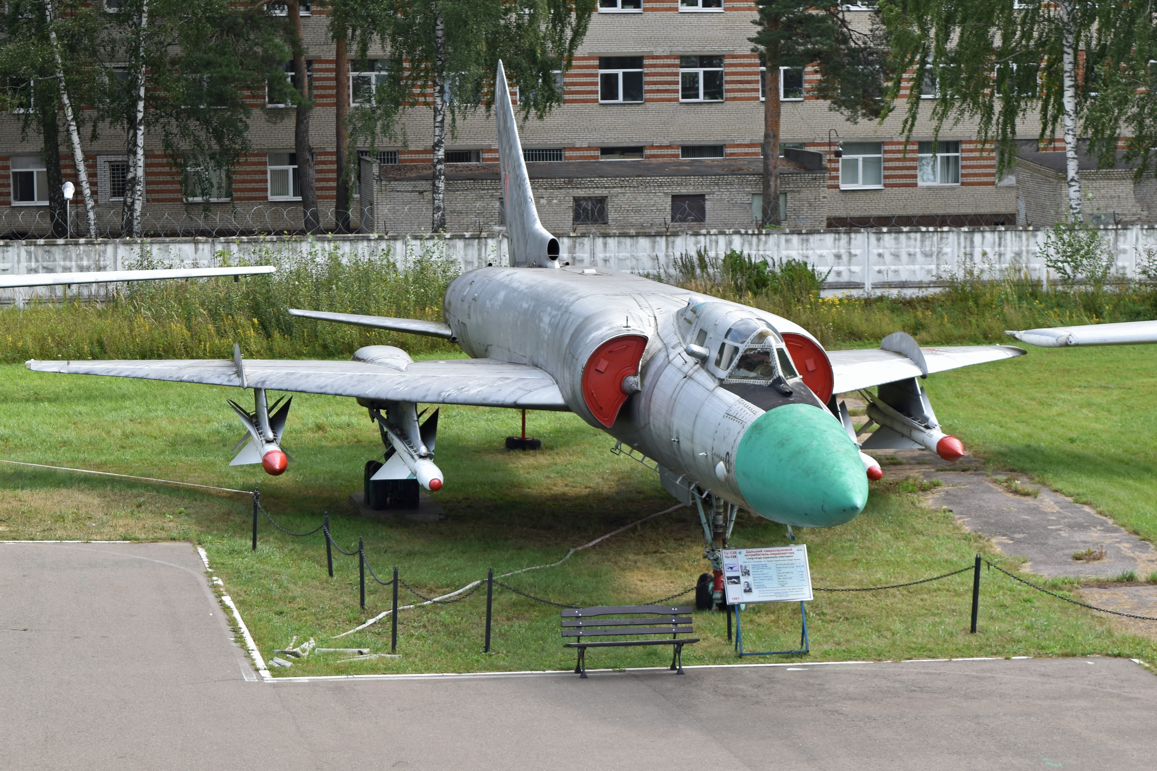 c/n 71281. NATO codename:- Fiddler The Tu-128 was a twin-engined supersonic interceptor with a maximum speed of nearly 1,200mph. It first flew in 1961 and the type was finally retired in 1990. It competed against the La-250, an example of which is also on display at Monino. A total of 198 were built. Although known now by the Tupolev designation of Tu-128, it's Soviet Air Force designation was originally 'Tu-28'. This was officially changed to Tu-128 in 1963. This is the prototype aircraft and was originally coded '0 black' before being given a red bort code (like many other aircraft at here). On display at the Central Air Force museum, Monino, Moscow Oblast, Russia. 27th August 2017